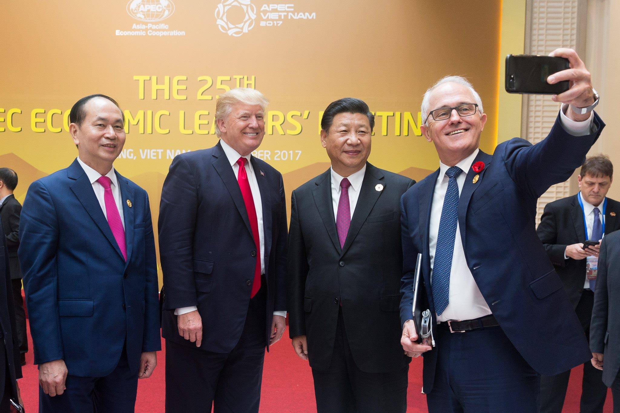 It's a wrap 12 days, five countries, 32,000 kilometers, and the longest trip to Asia by a U.S. President in more than a quarter century